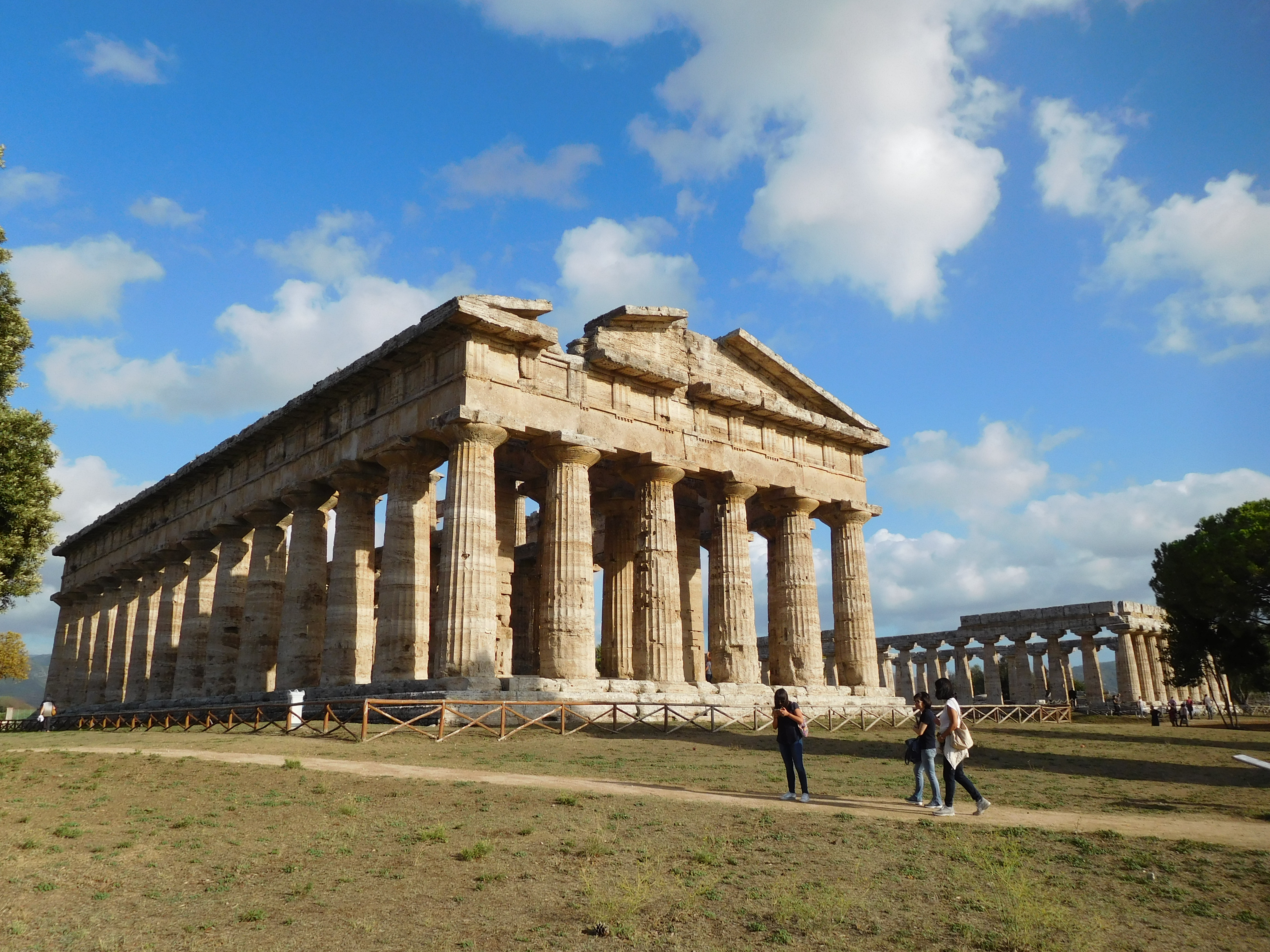 Temple of Poseidon (Paestum) This is a photo of a monument which is part of cultural heritage of Italy.